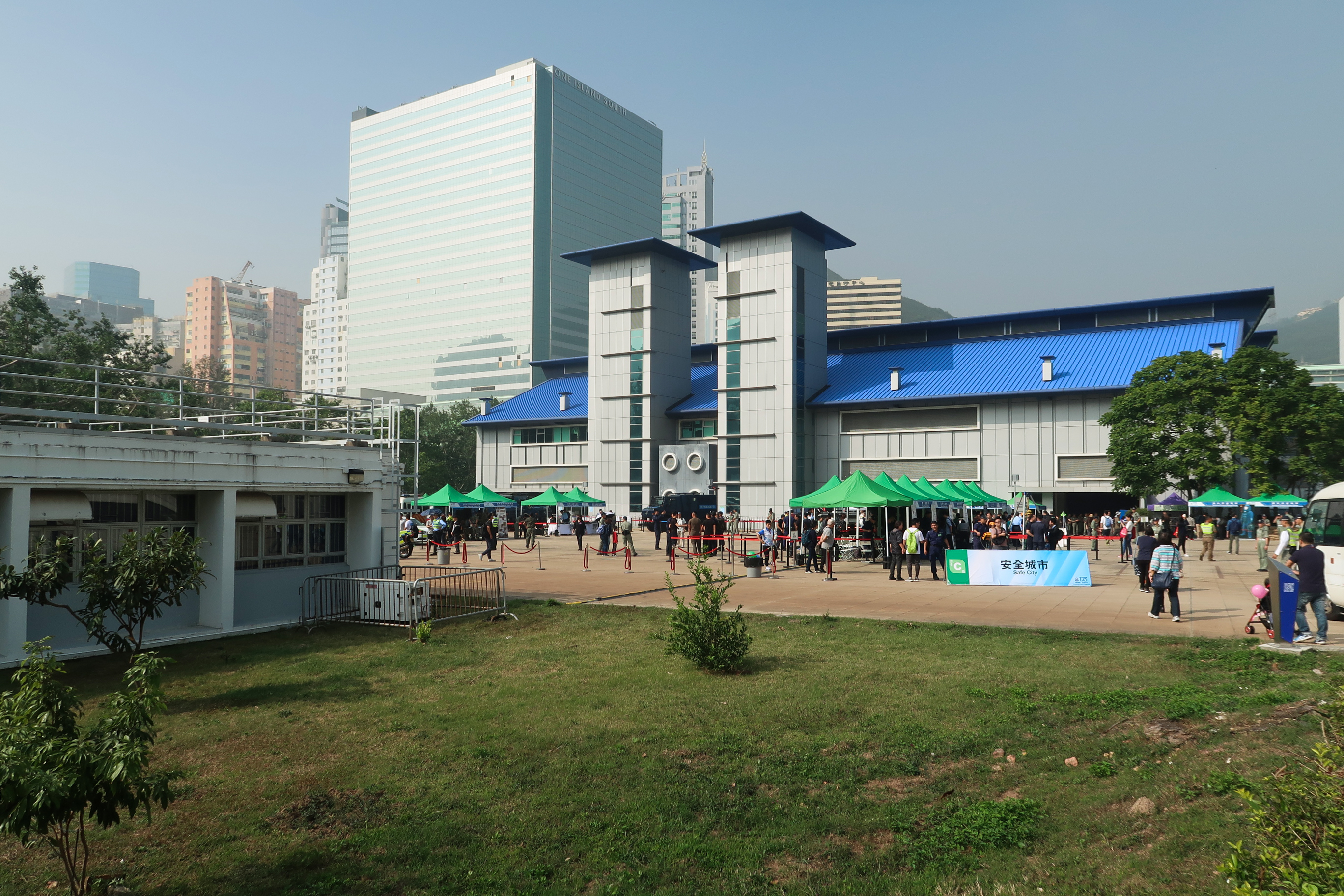 Hong Kong Police College Tactics Traning Complex